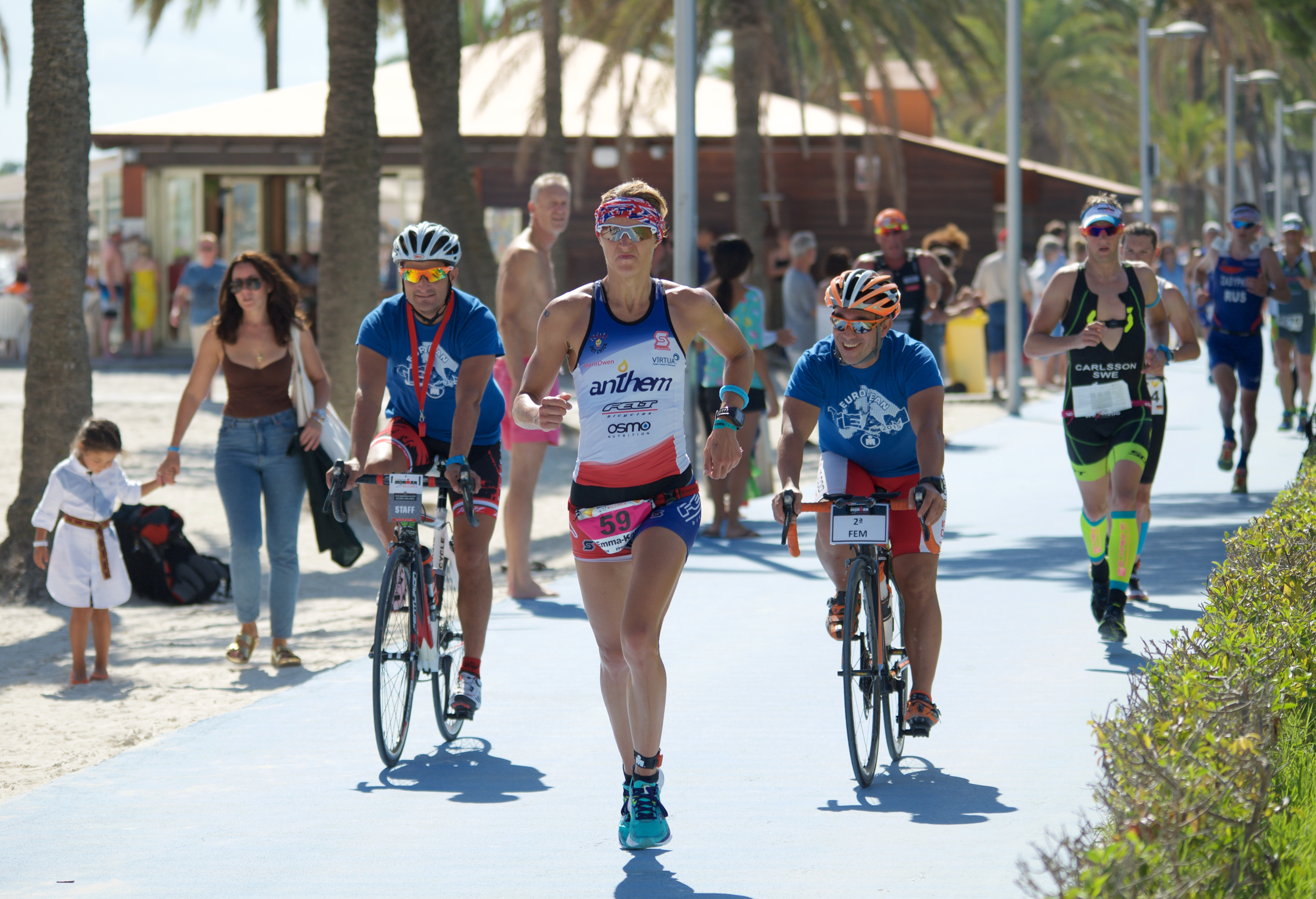 Emma-Katrin Lidbury, Ironman Mallorca 2015